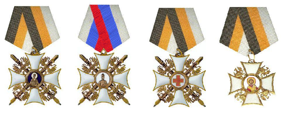 FOUR CROSSES, The Order of Sain Nicholas the Wonderworker